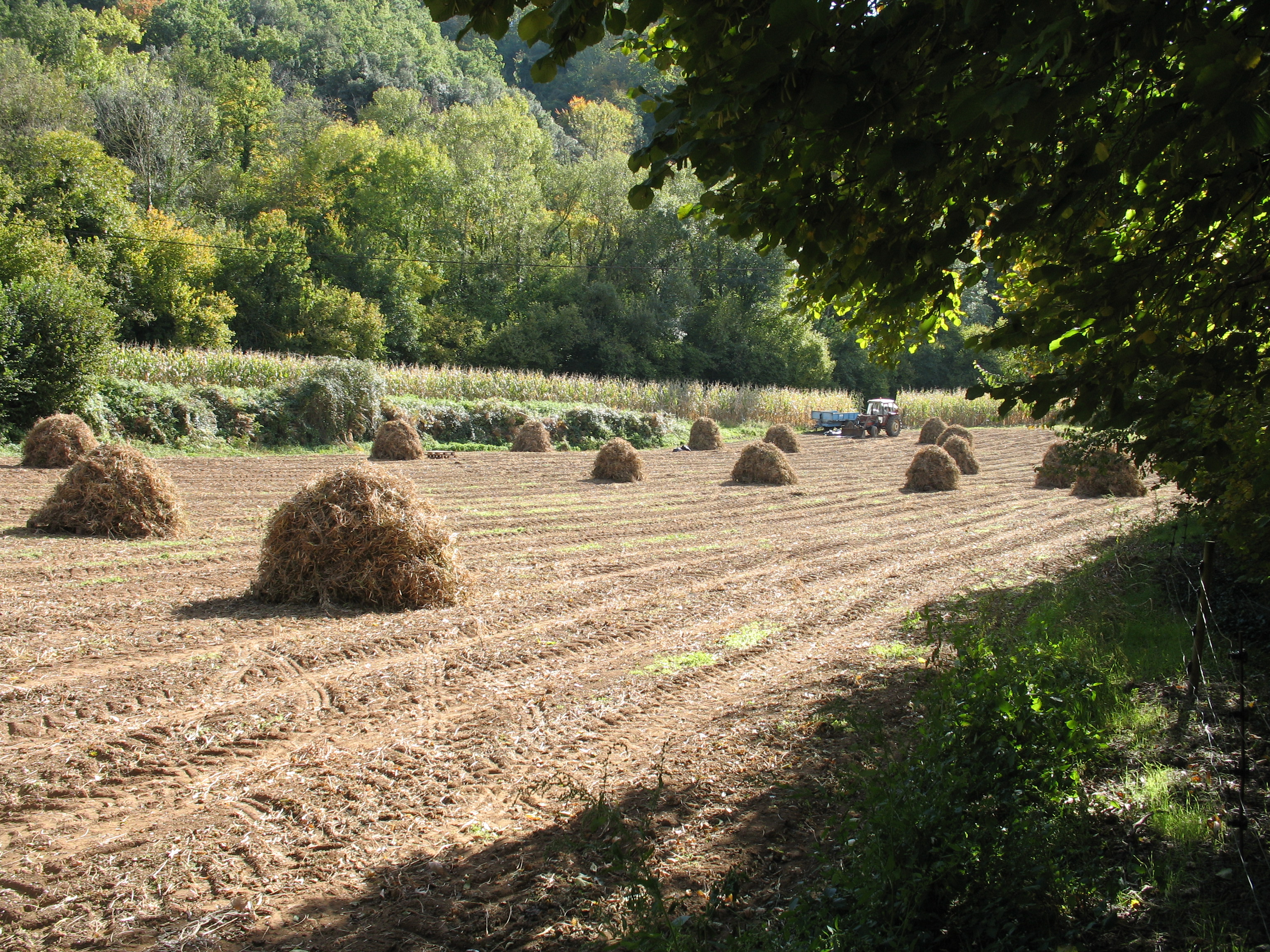 Fesols de Santa Pau beans in natural drying process